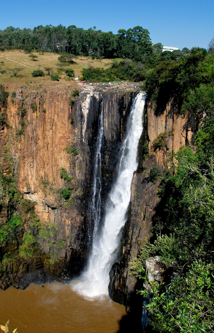 The Howick Falls is a large waterfall that occurs when the Umgeni River falls 95 metres (311 feet) over dolerite cliffs on its way to the Indian Ocean. The waterfall was known as kwaNogqaza or "The Place of the Tall One" by the original Zulu inhabitants.